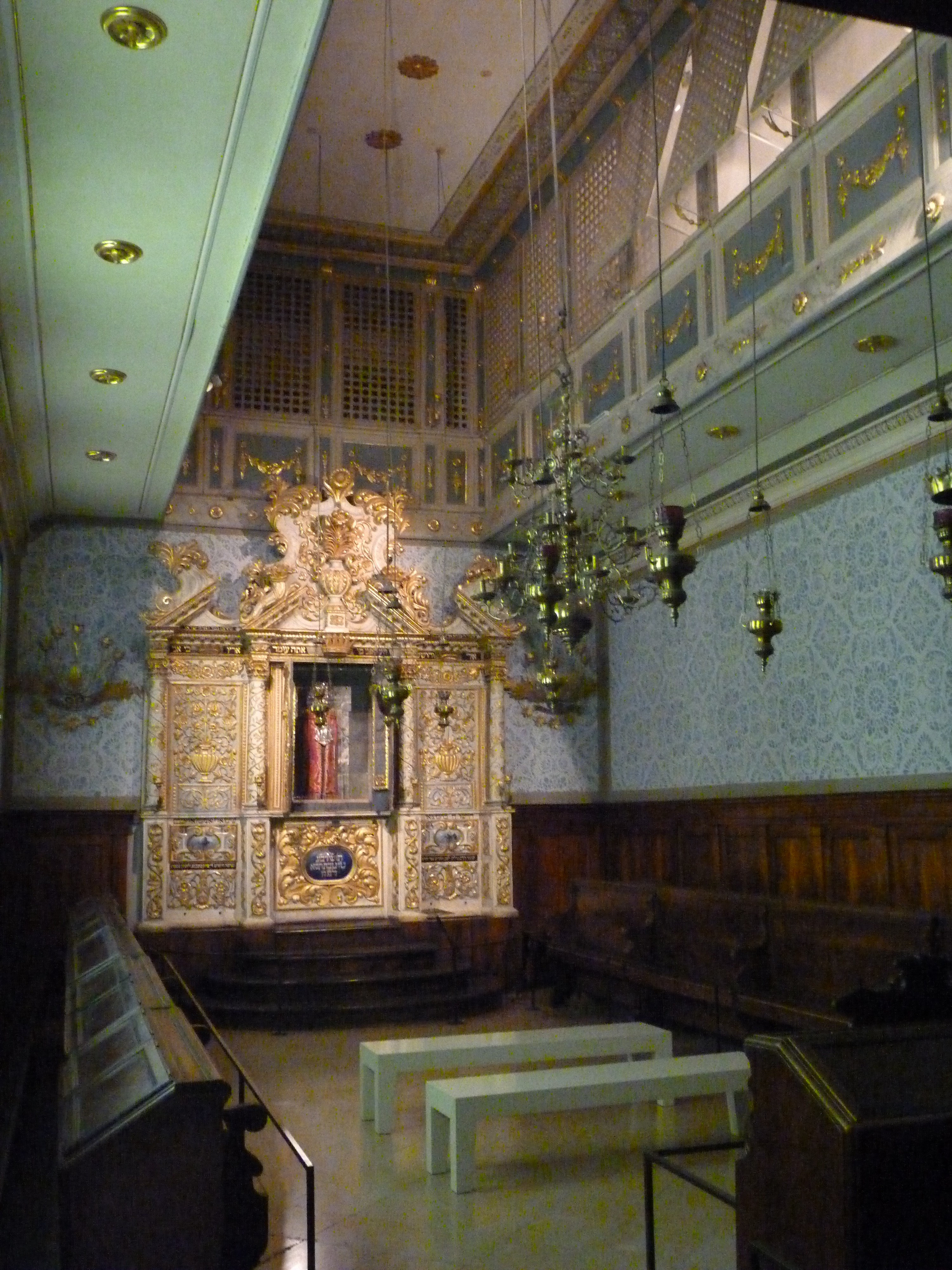 Vittorio Veneto synagogue. Israel Museum, Jerusalem